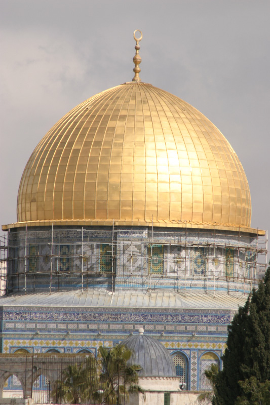 Dome of the rock in Jerusalem.